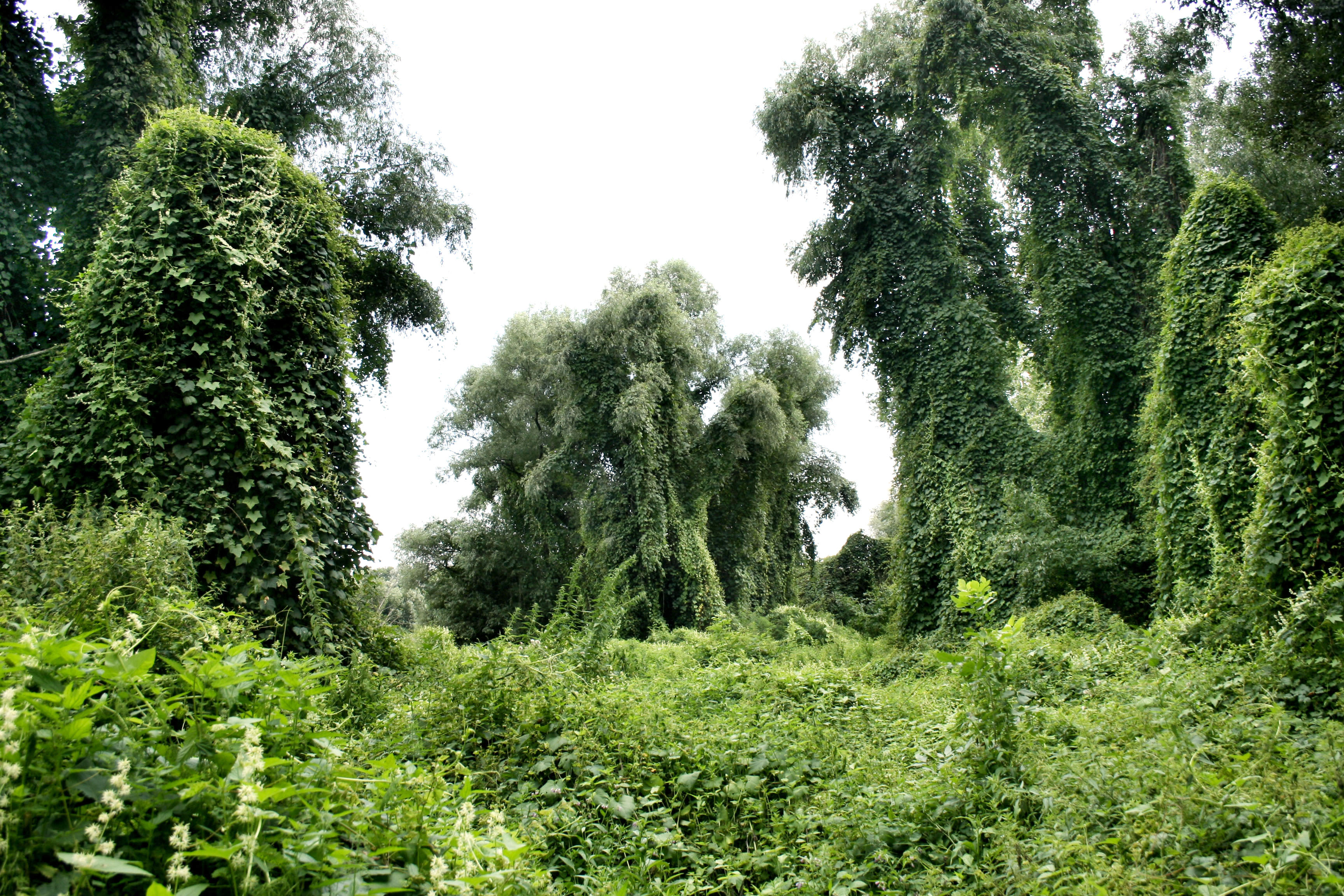 Tisza river, floodplain forests, Szeged, Hungary